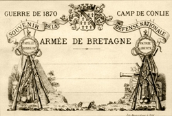 the first ever picture postacard (claimed), made for Camp Conlie, 1870.